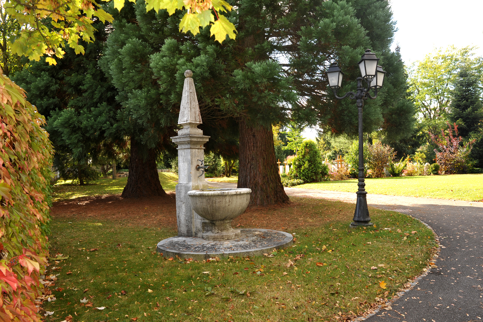 Fountain of the Ochsenbein manor in Port at Nidau cemetery; Berne, Switzerland